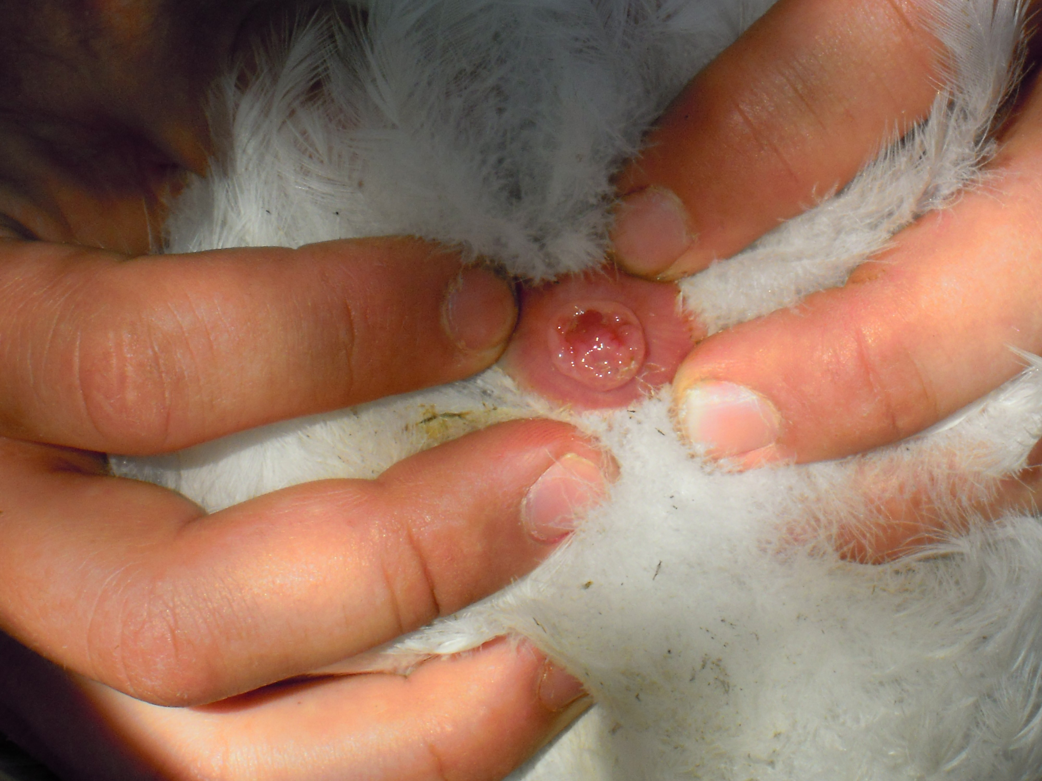 Cloaca of an female animale